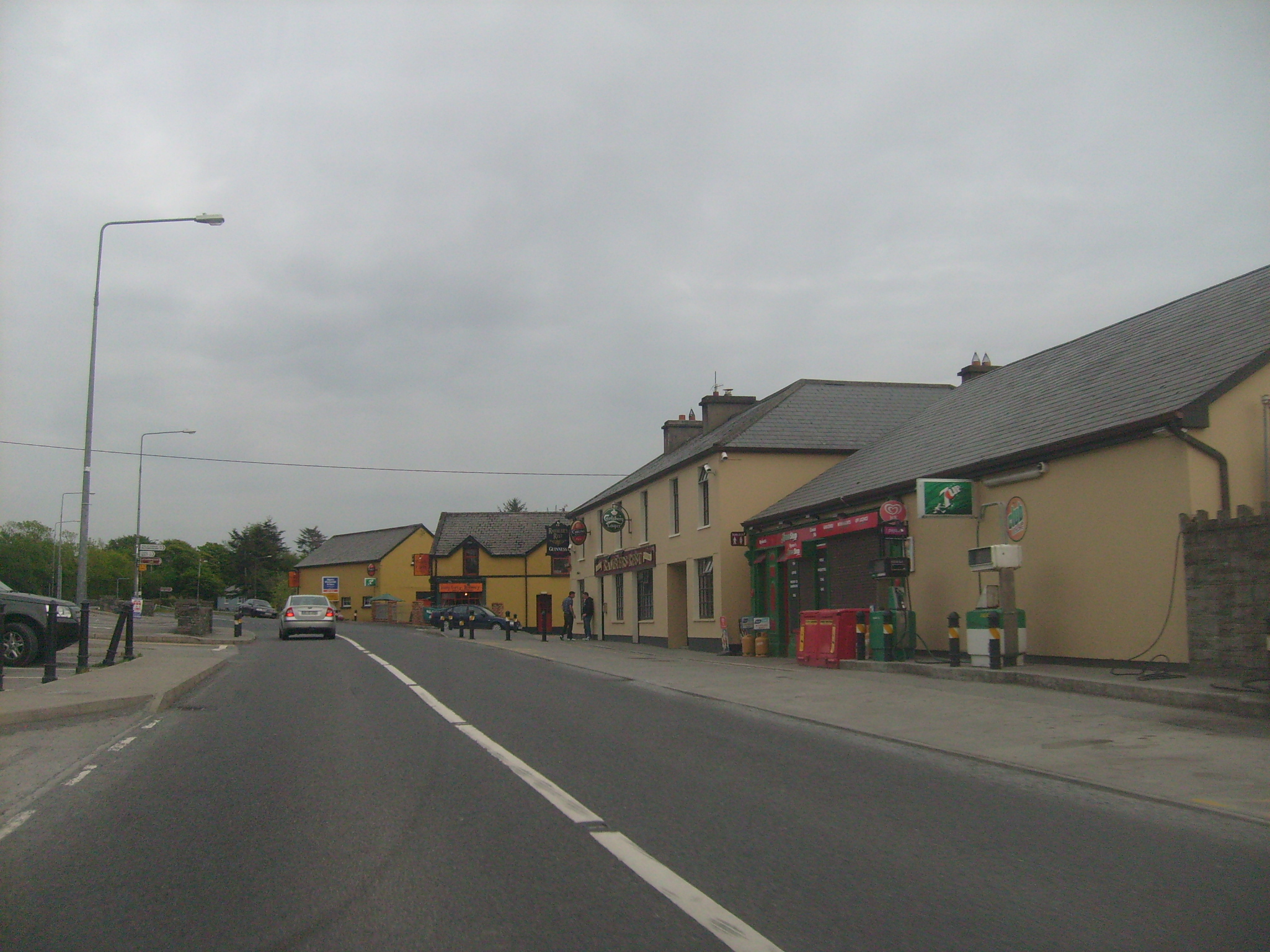 Inagh, Co Clare, Éire